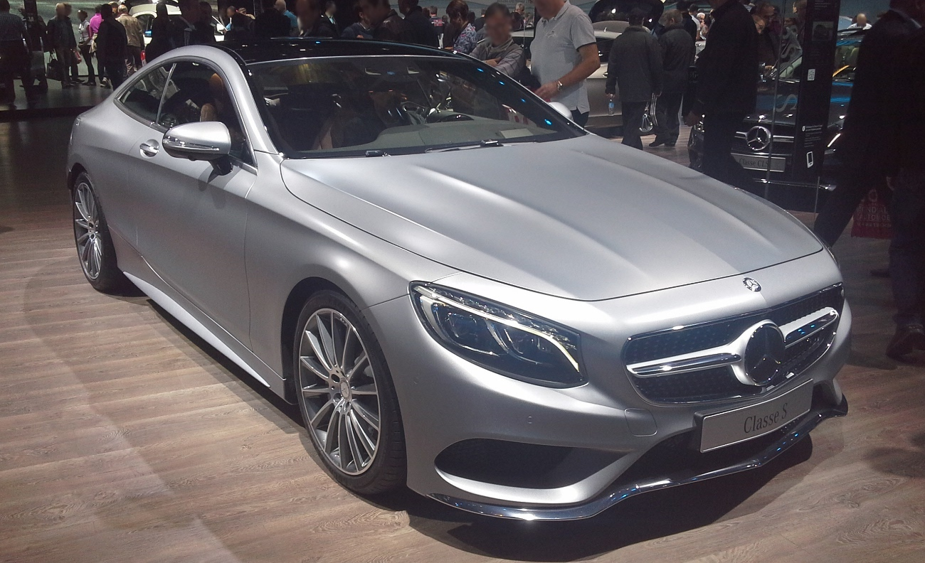 Mercedes S-Class Coupé C217 photographed at the Mondial de l'Automobile 2014 in Paris, France.